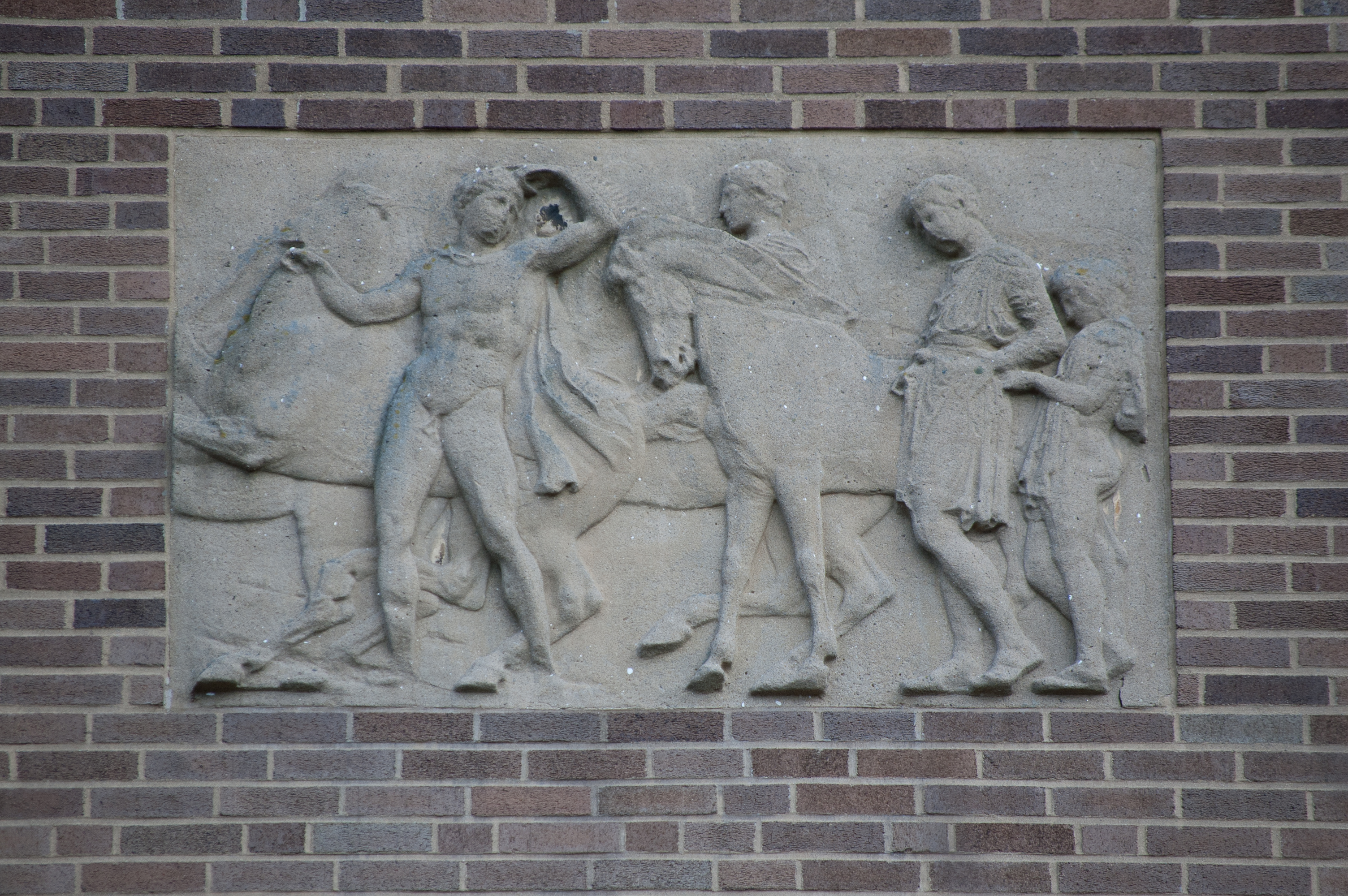 Architectural relief, detail on the Massachusetts School of Art building on Brookline Avenue in Boston.